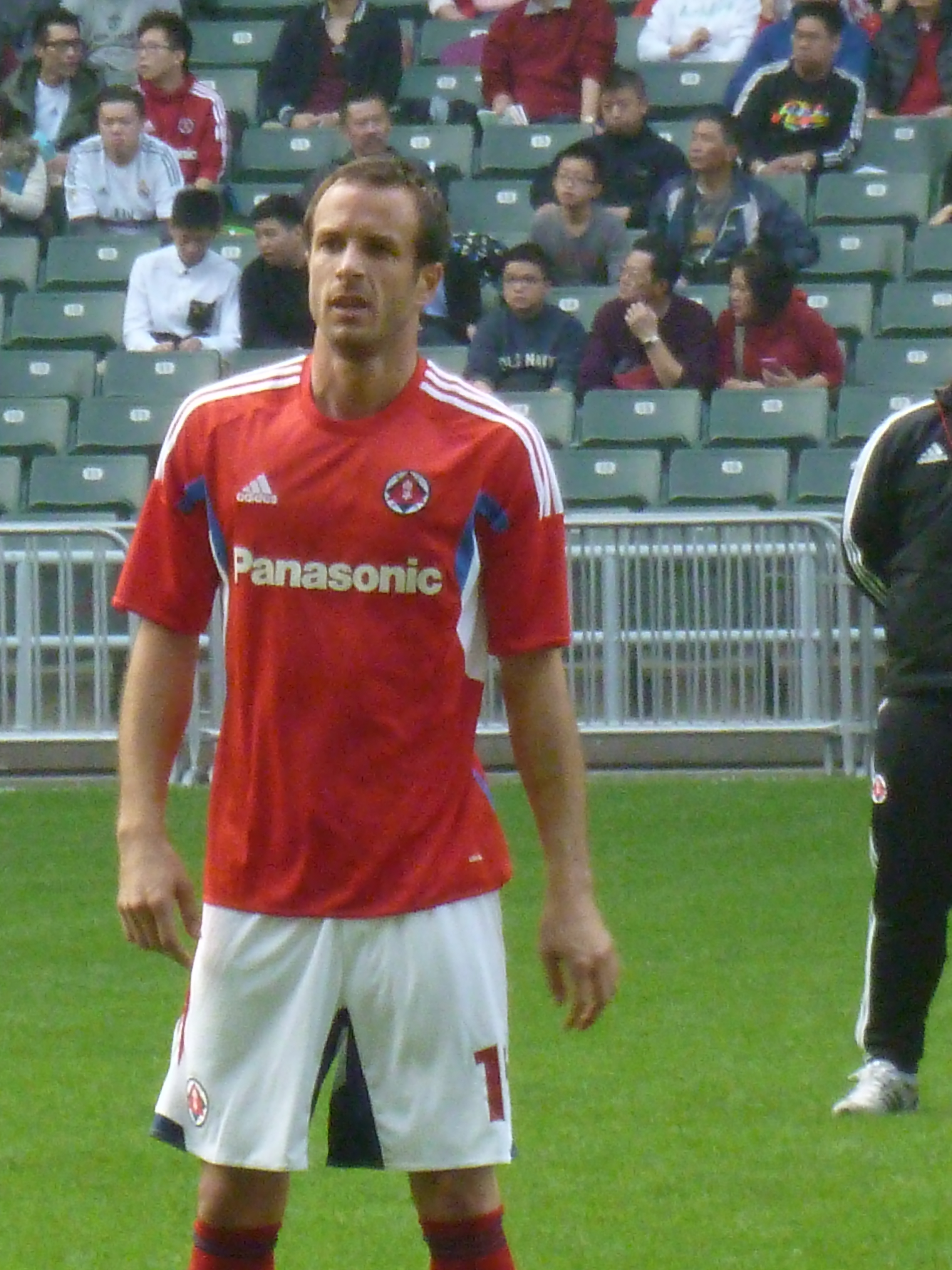 Saša Kajkut (12 Jan 2014, Hong Kong Senior Shield, Pegasus vs South China, Hong Kong Stadium) 中文（香港）: 卡古特 (12 Jan 2014, 香港高級組銀牌賽, 飛馬 vs 南華, 香港大球場)